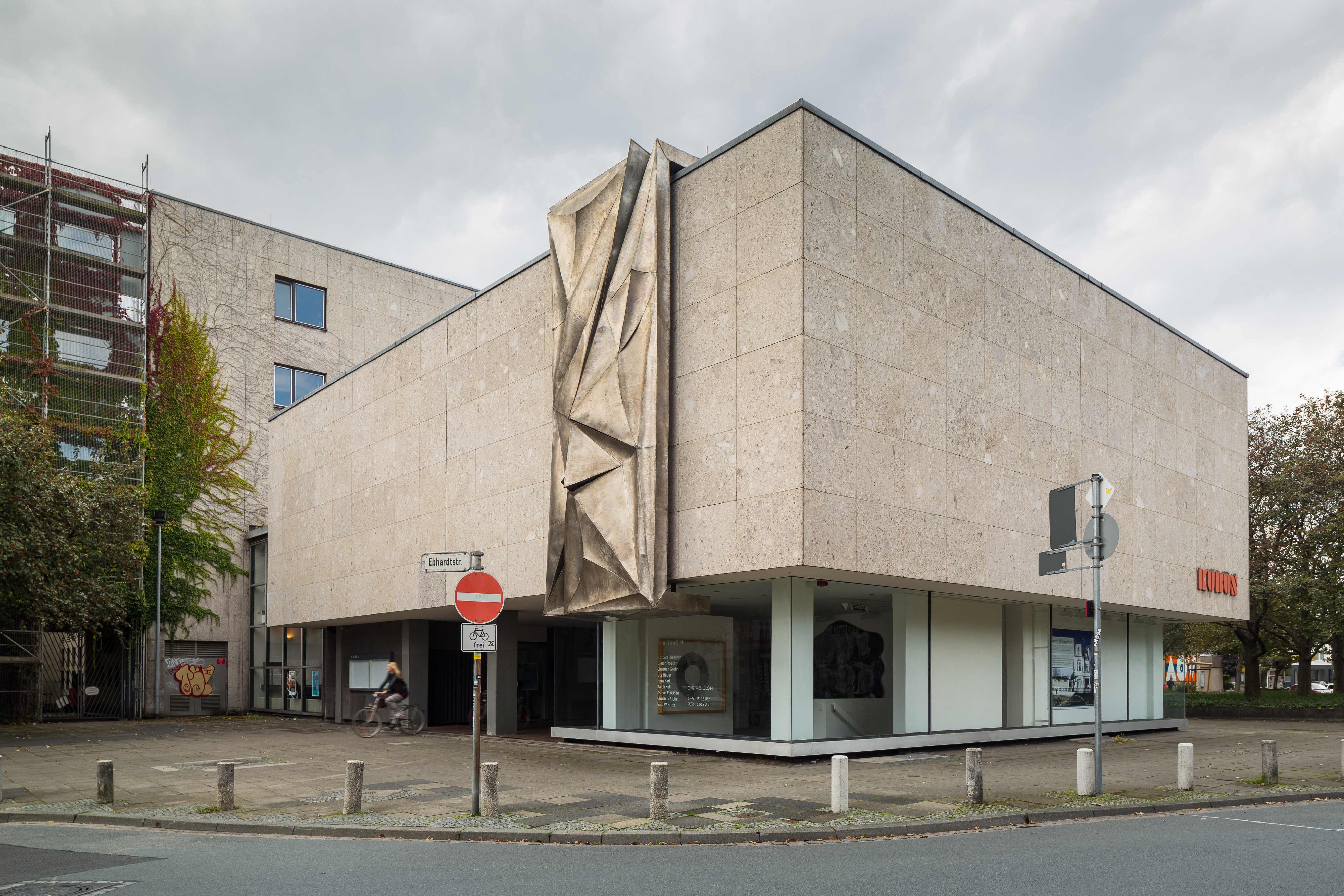 Municipal art gallery "KUBUS" located at Breite Strasse and Ebhardstrasse in Hanover, Germany.